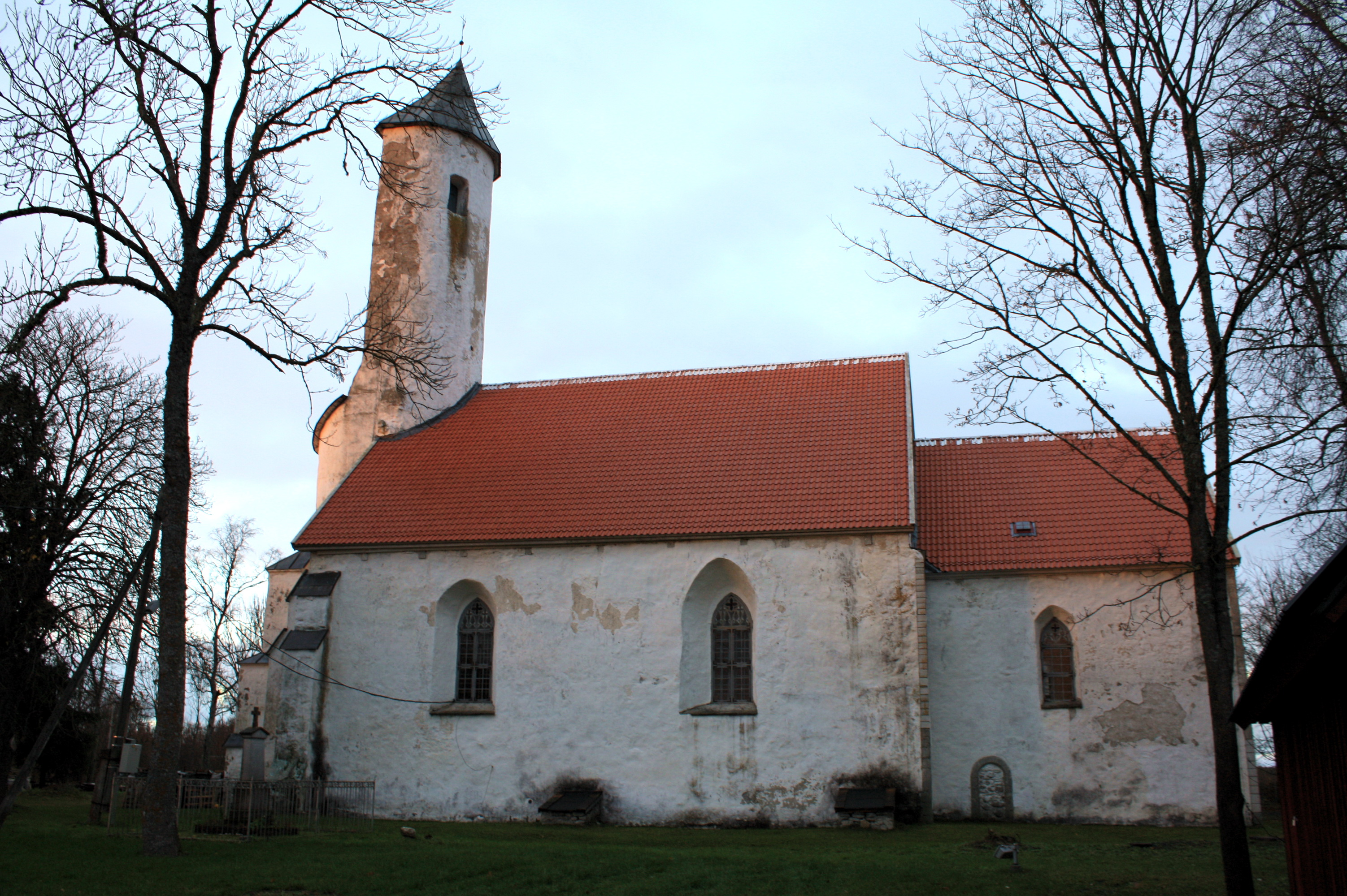 Harju-Risti church